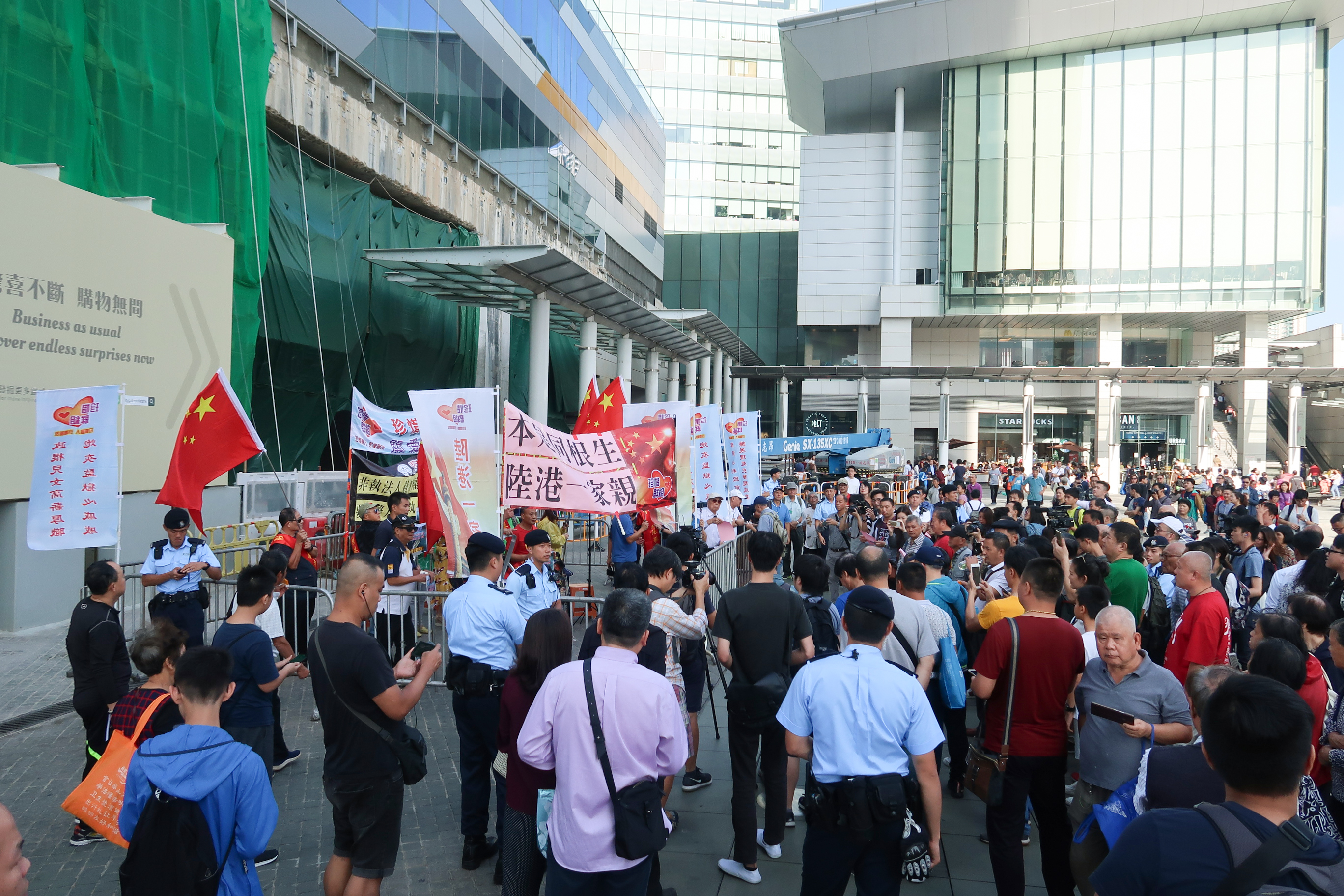 Reclaim Tung Chung protest Pro government protesters